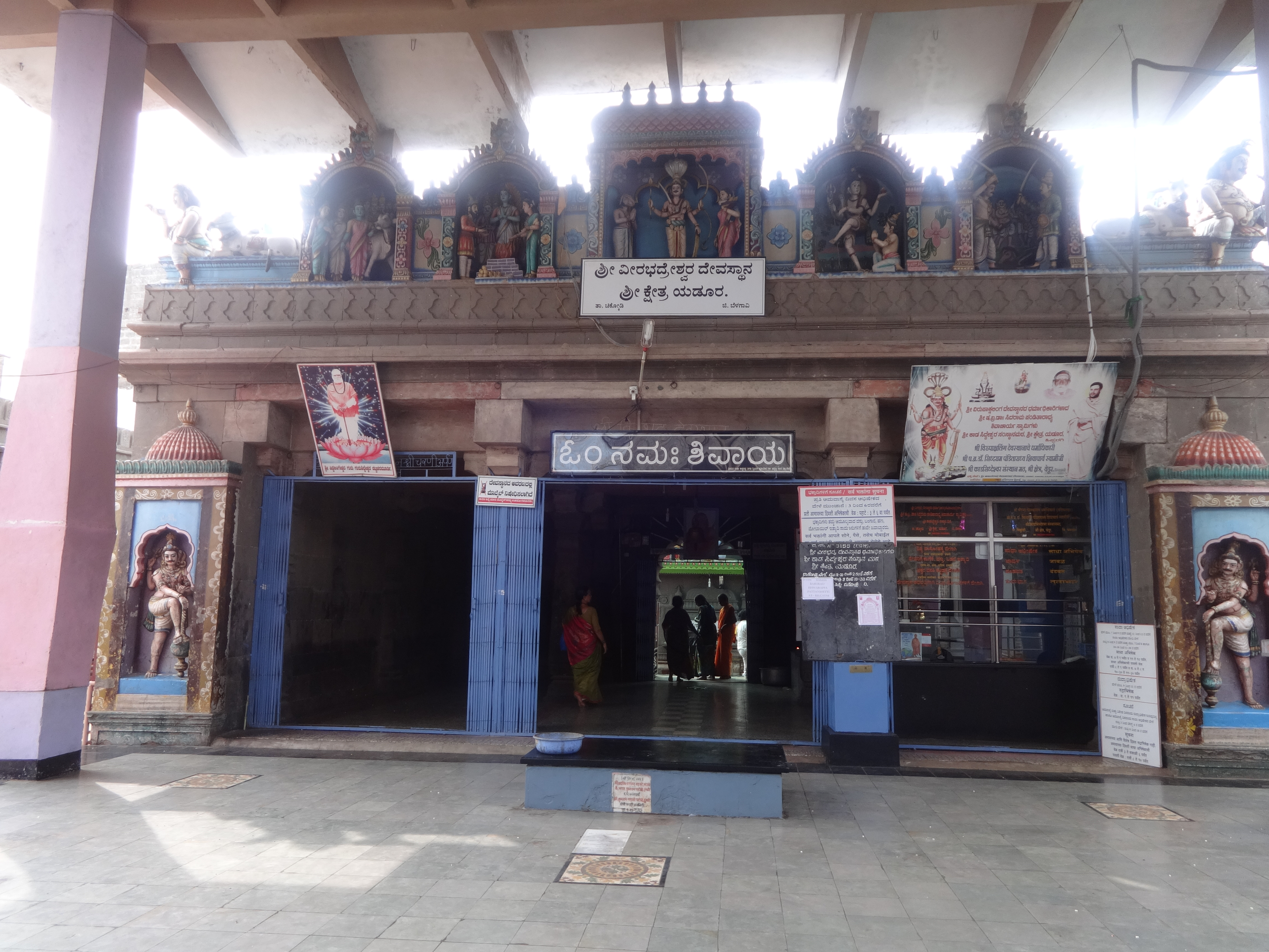 Shri Veerabhadreshwar Temple